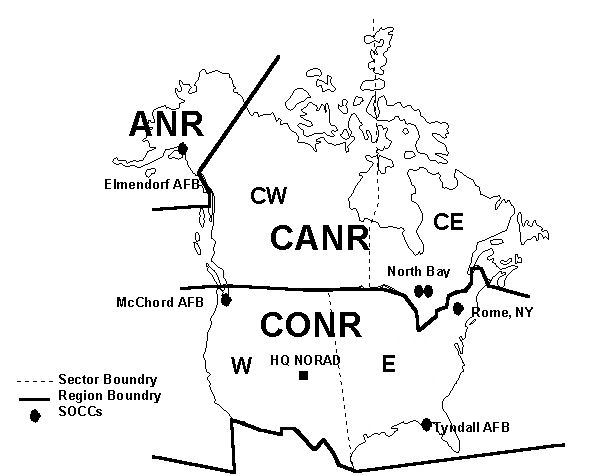 NORAD Region/Sector Map